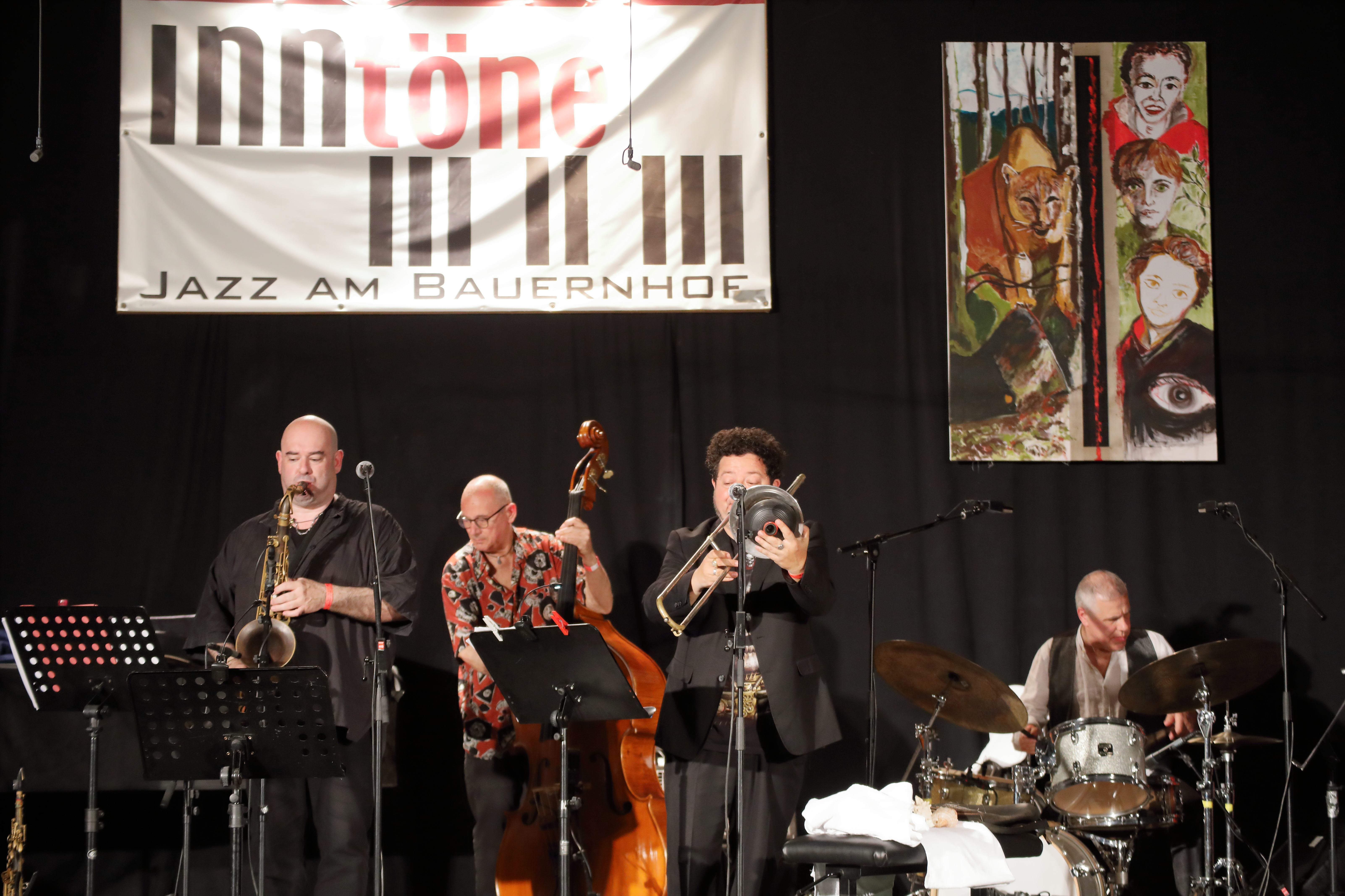 The sardinian choir Tenore Goine di Nuoro with the Gavino Murgia Blast Quartet at INNtöne Jazzfestival 2019.